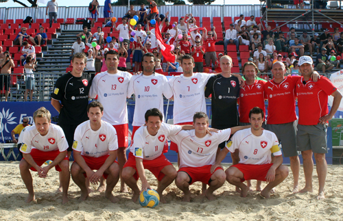 Swiss Beach Soccer Nationalteam